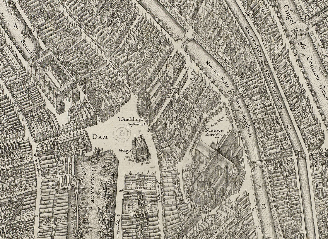 Map of Amsterdam, detail, Dam square.